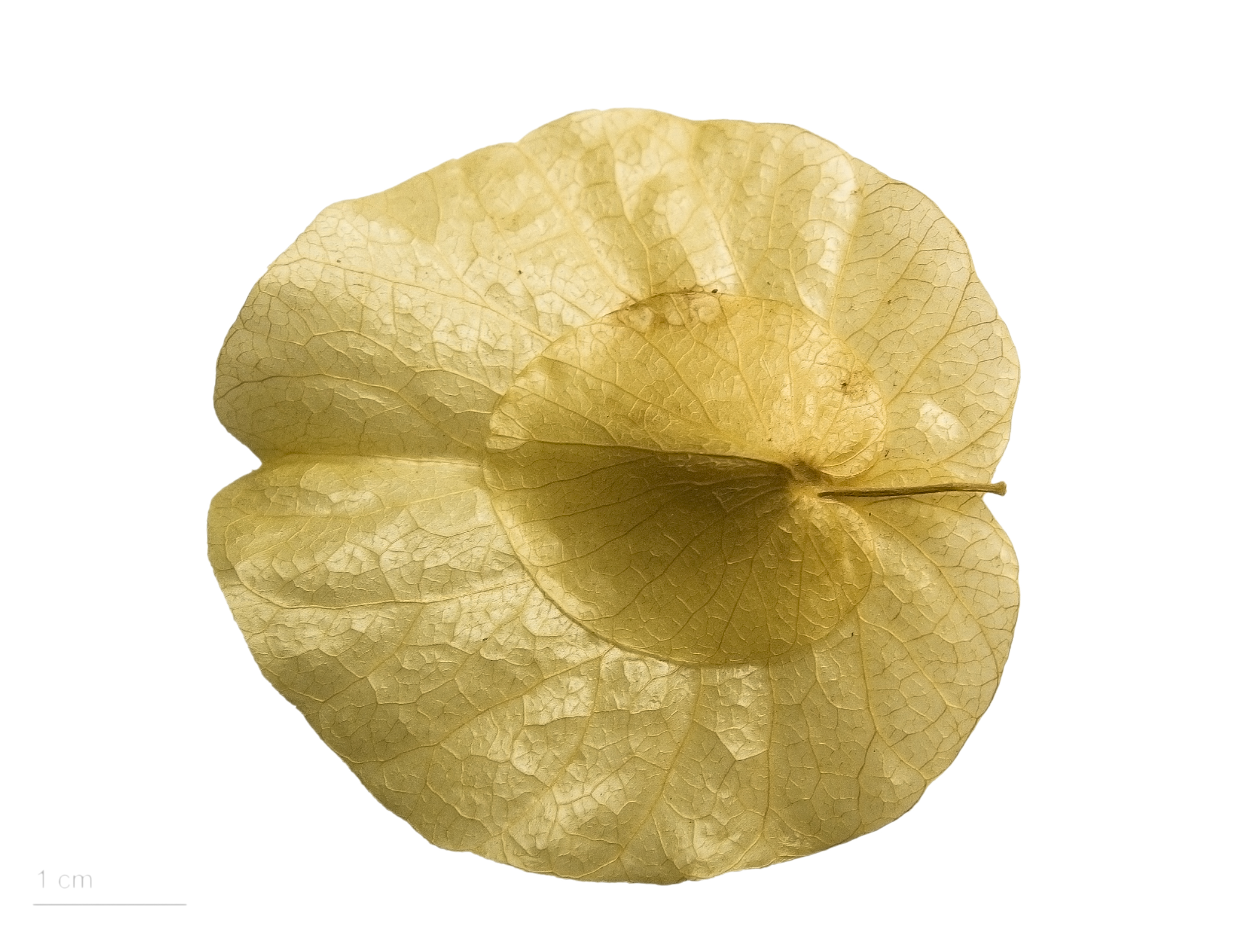 Calycobolus africanus, fruits and seeds